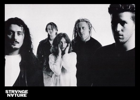 Strange Nature band picture